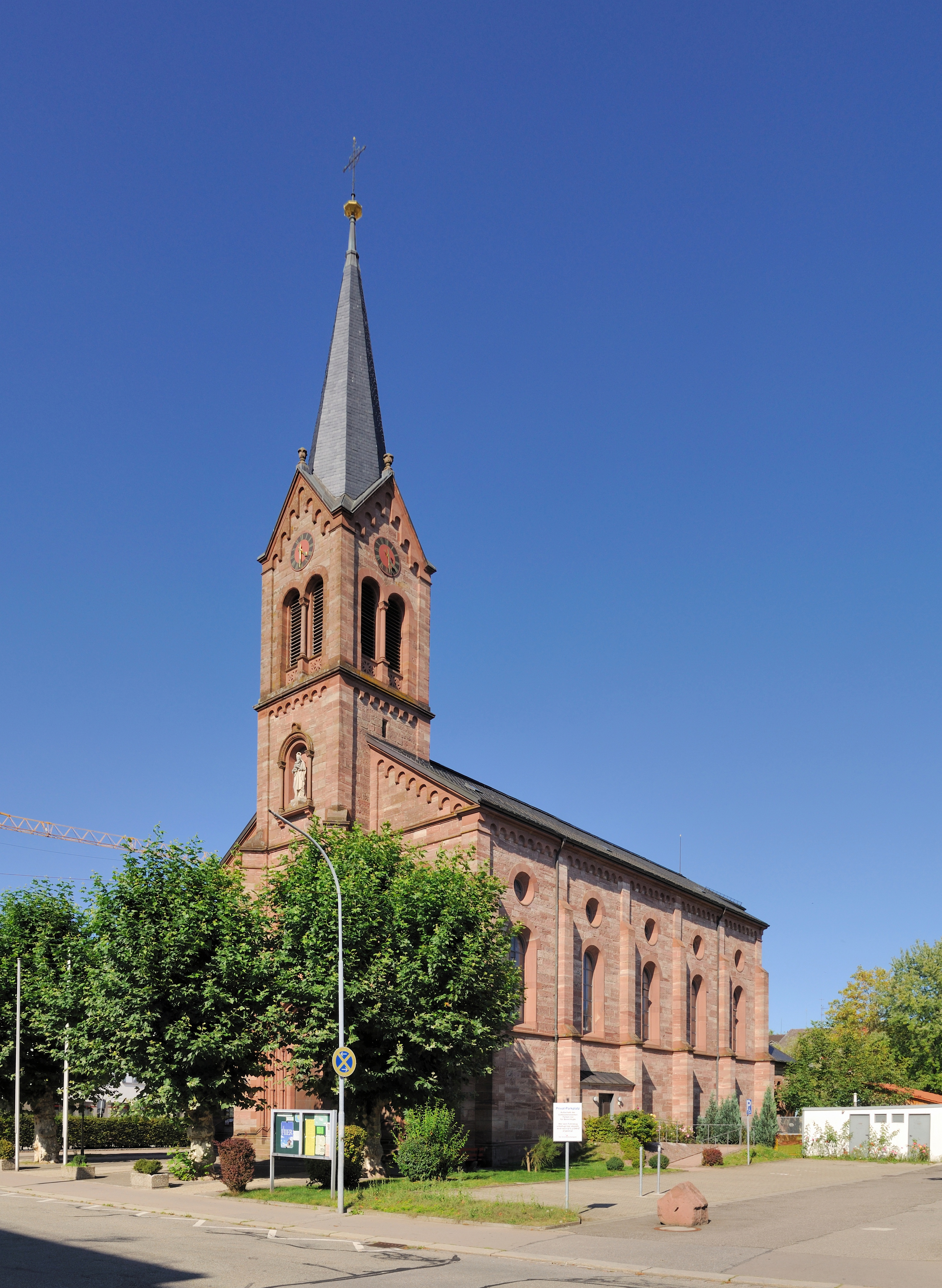 Schopfheim: Catholic Church